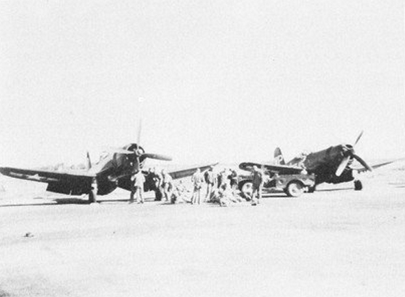 Two Vought F4U-4 Corsair from Marine Fighter Squadron 223 (VMF-223) "Bulldogs" at Wheelus Air Base, Libya. VMF-223 was assigned to Marine Aircraft Group 11 (MAG-11) aboard the U.S. Navy aircraft carrier USS Leyte (CV-32) for a depolyment to the Mediterranean Sea from 6 September 1949 to 26 January 1950.